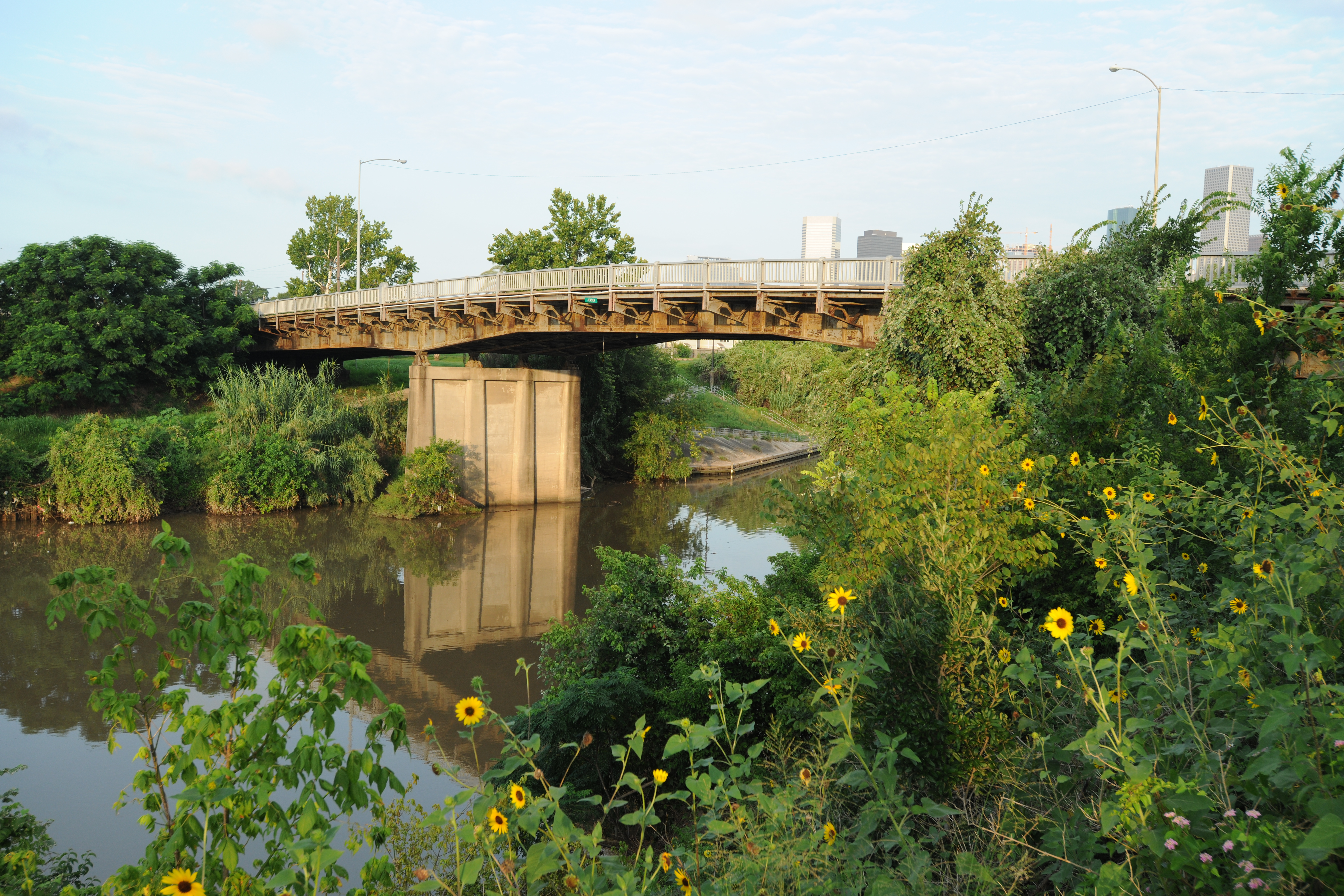 In Houston, South Jensen Drive crosses over Buffalo Bayou via the Hill Street Bridge (constructed 1938), which is listed in the National Register of Historic Places. This photo was shot from the northern bank of the bayou shortly after sunrise on 18 July 2010.